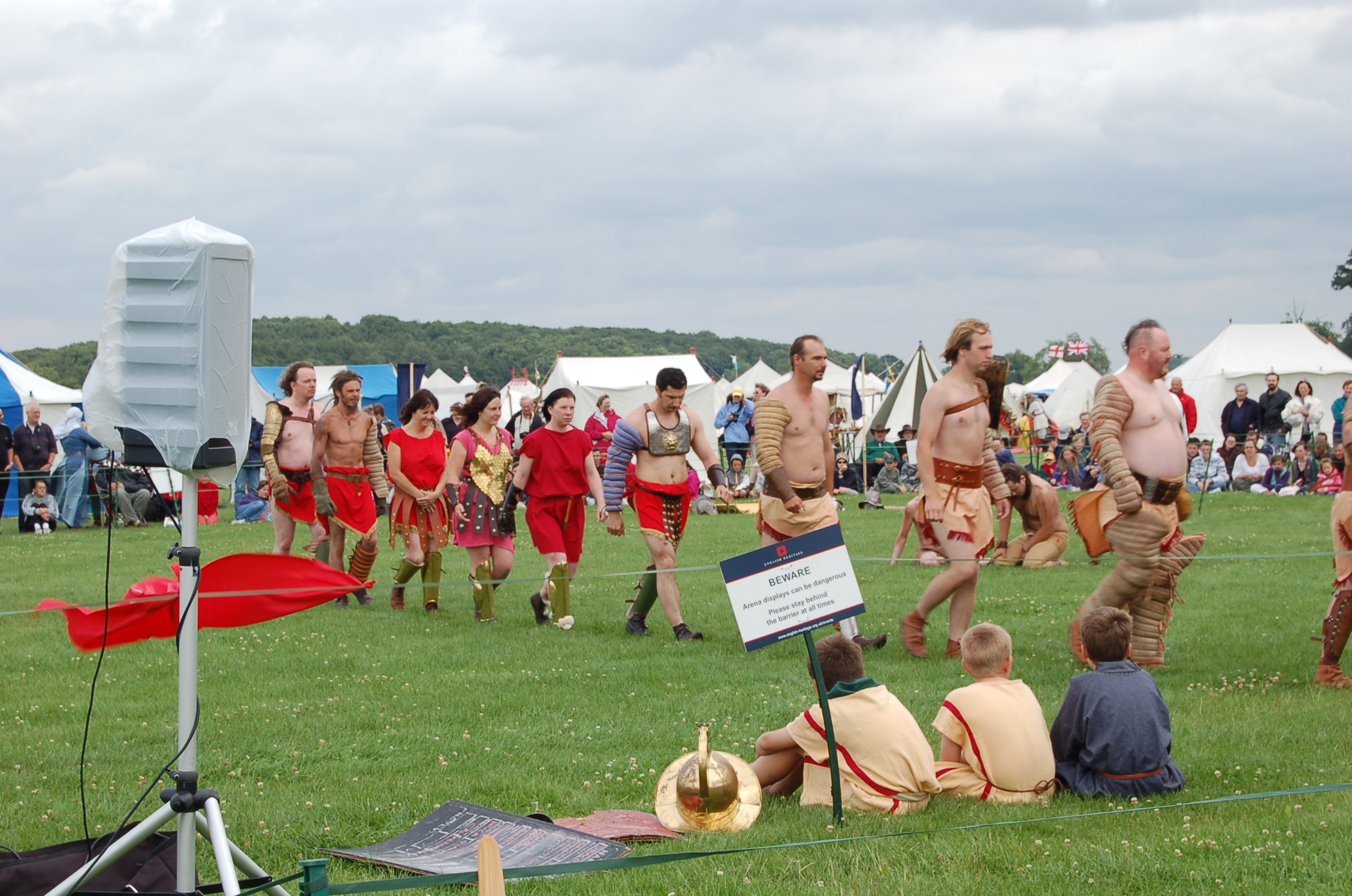 Gladiators enter the arena at English Heritage Festival of History. This was added from the site called under the name portableantiquities. See source for details.